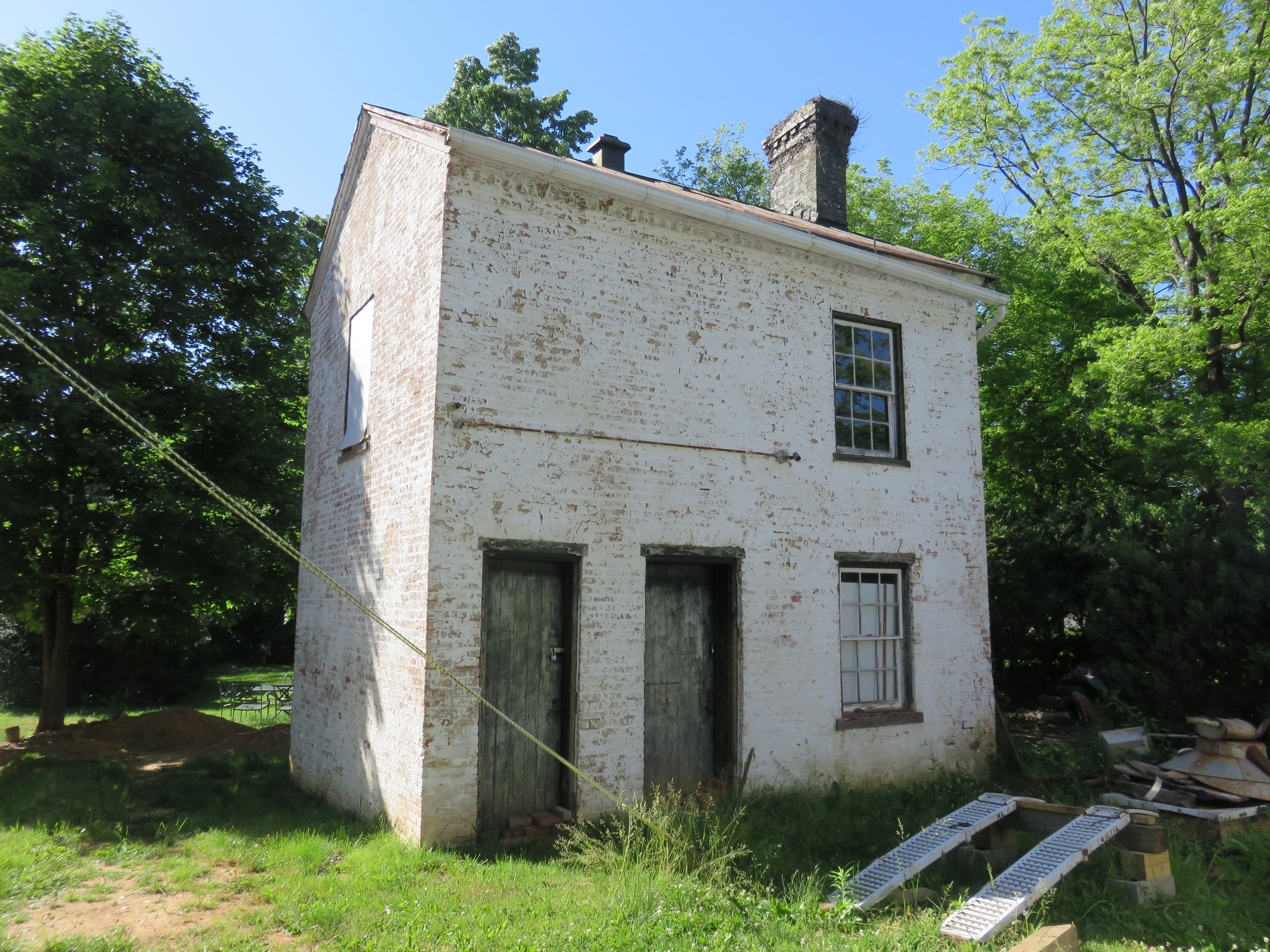 Brentmoor summer kitchen in Warrenton, Virginia in 2020